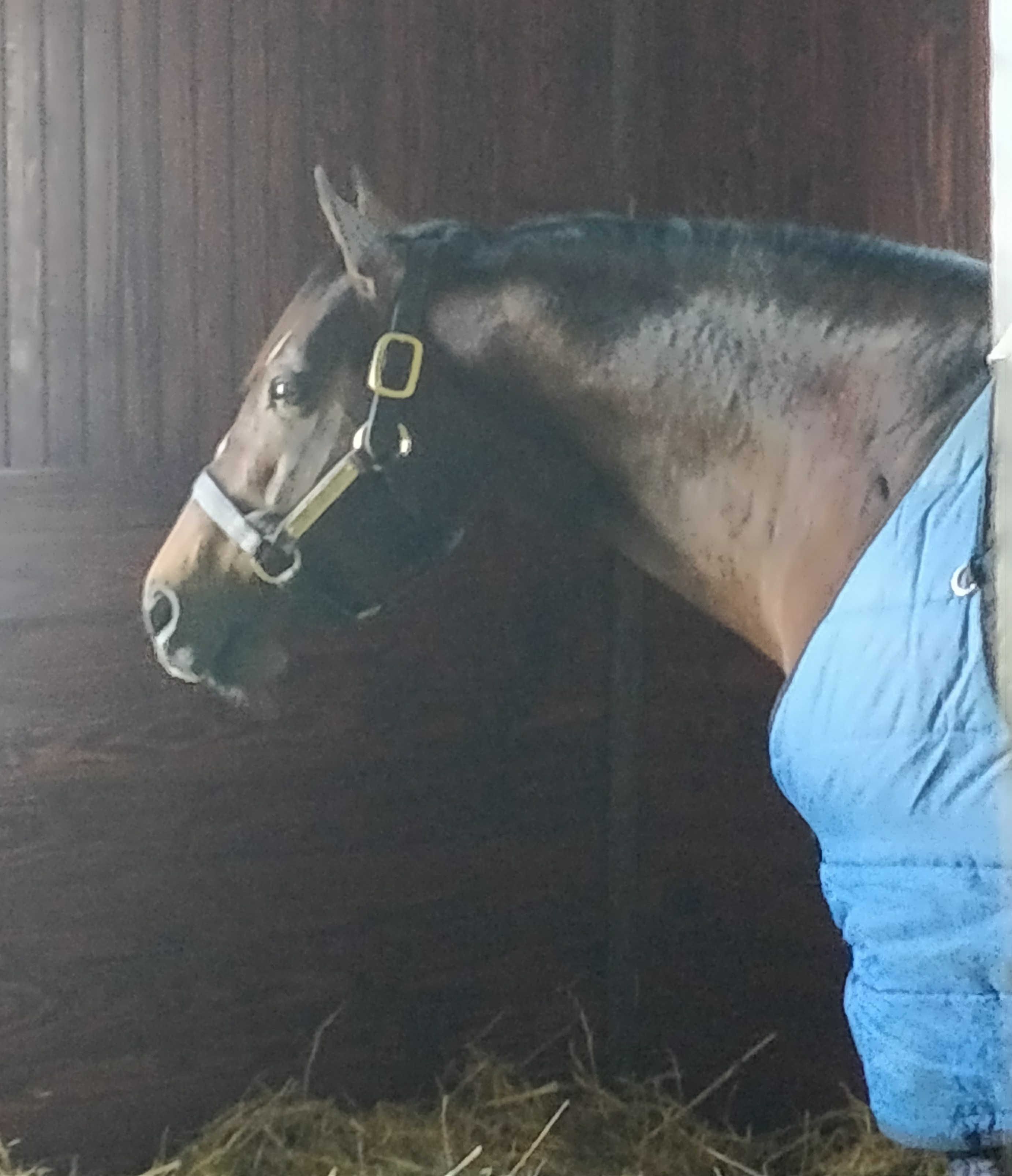 Spendthrift Farm - Into Mischief Feel free to use this photo however you like, just attribute . Thanks!